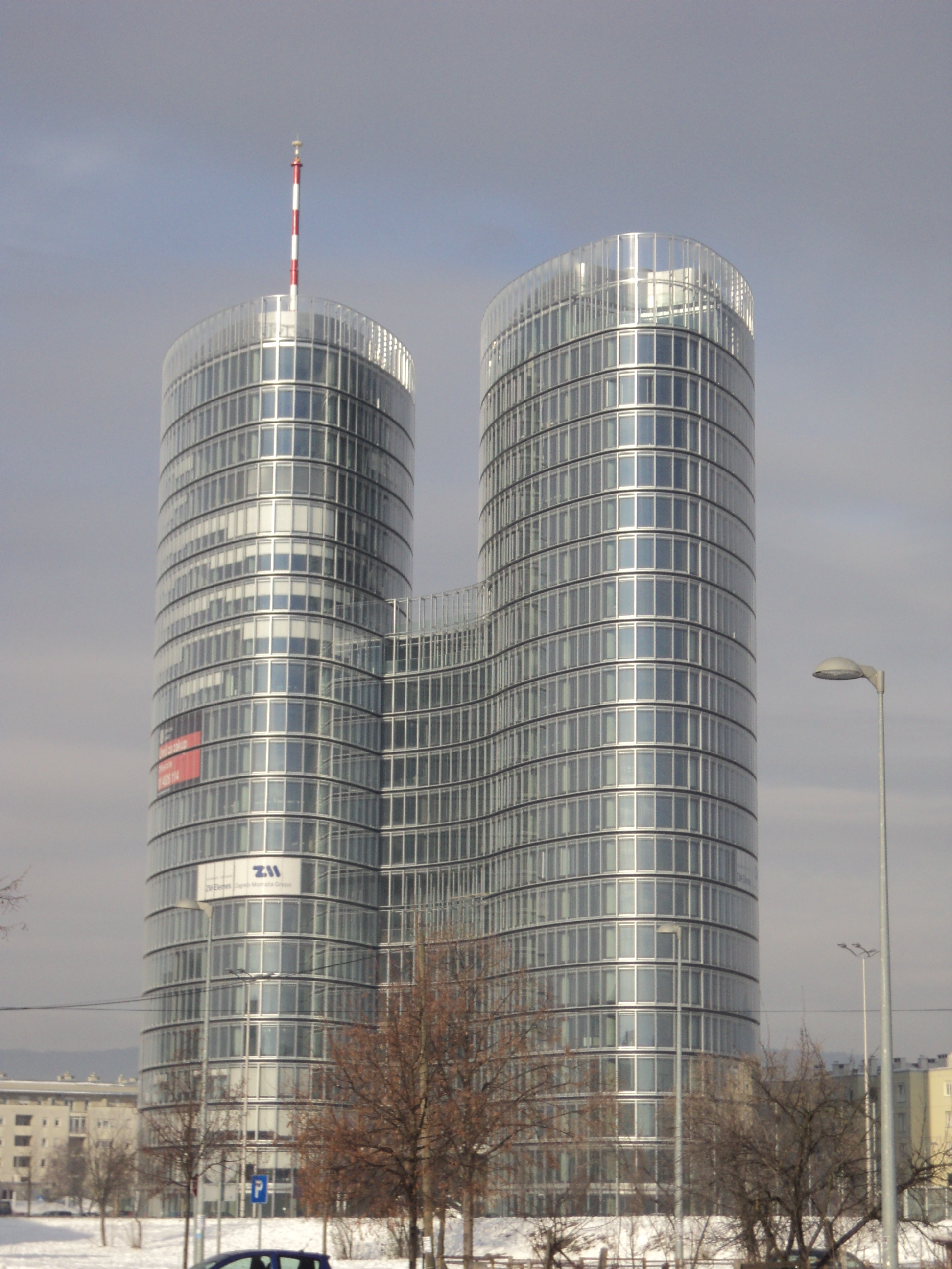 Sky Office Tower, Zagreb.